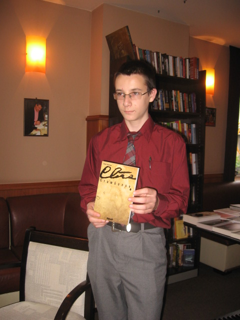 Stoyo Tetevenski - the youngest Bulgarian author